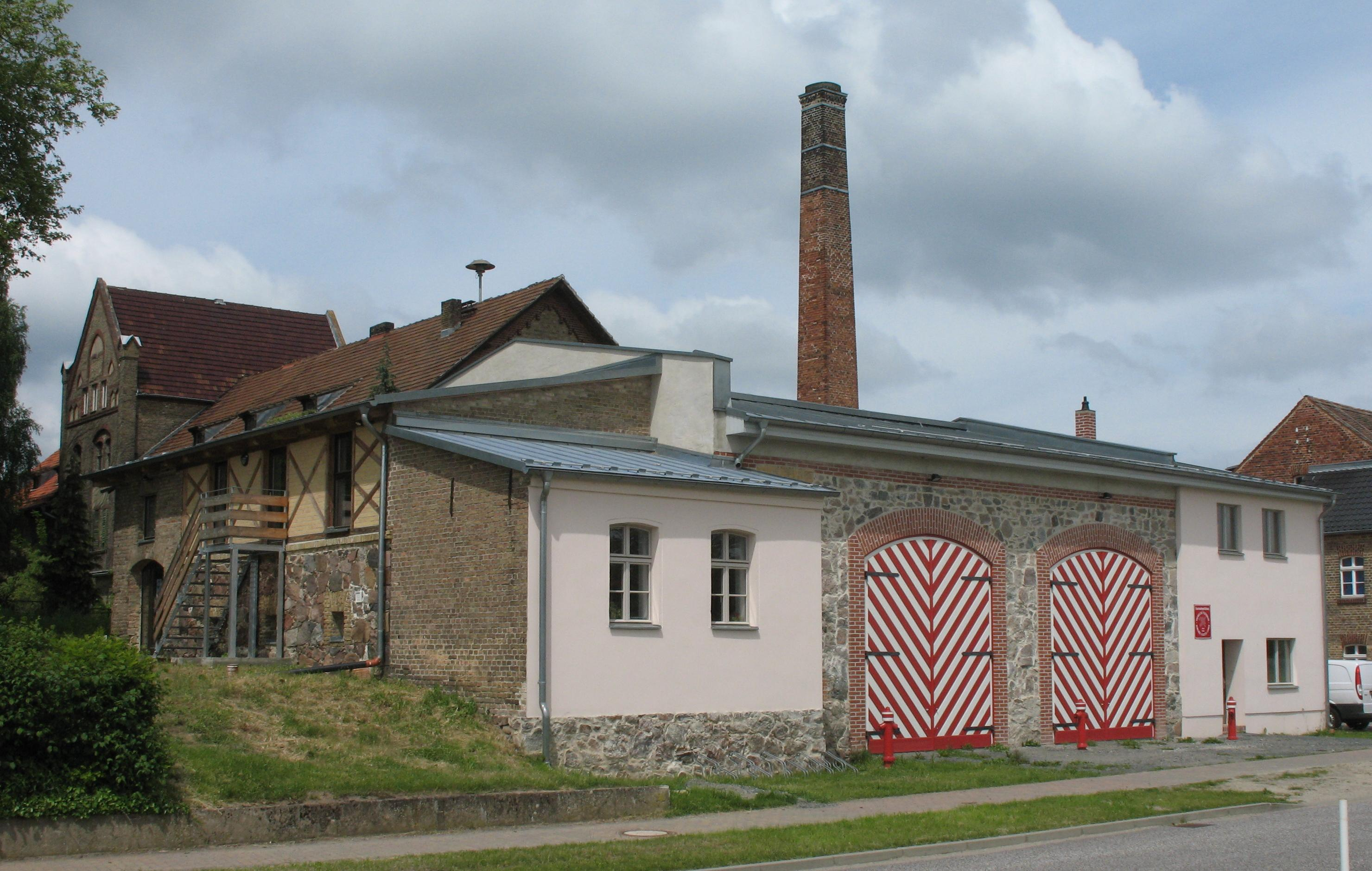 Manor house and fire station in Krahne (municipality Kloster Lehnin) in Brandenburg, Germany